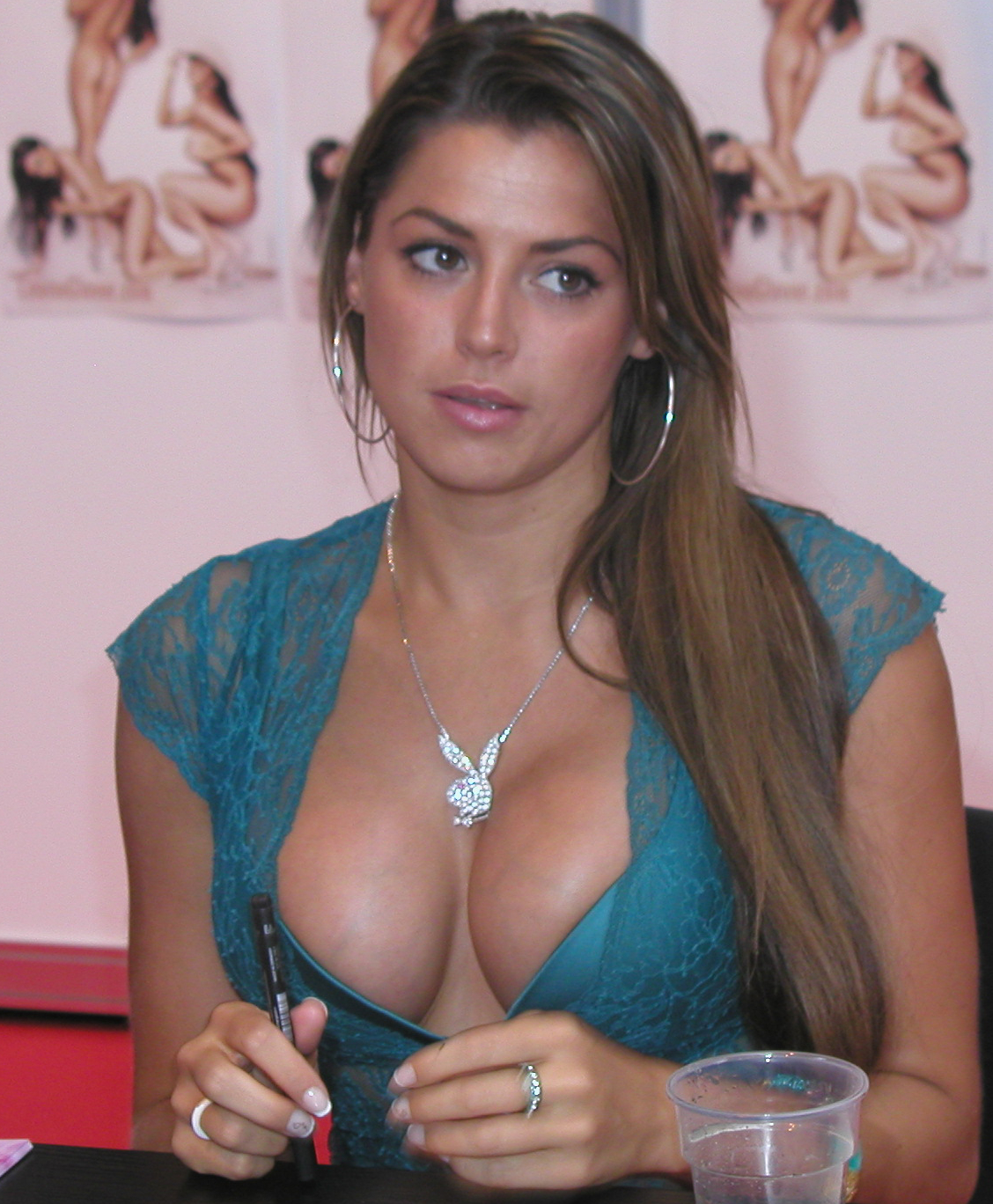 Louise Glover at Max Power Live 2006.